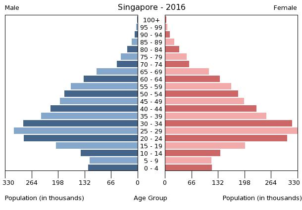 A population pyramid illustrates the age and sex structure of a country's population and may provide insights about political and social stability, as well as economic development. The population is distributed along the horizontal axis, with males shown on the left and females on the right. The male and female populations are broken down into 5-year age groups represented as horizontal bars along the vertical axis, with the youngest age groups at the bottom and the oldest at the top. The shape of the population pyramid gradually evolves over time based on fertility, mortality, and international migration trends.